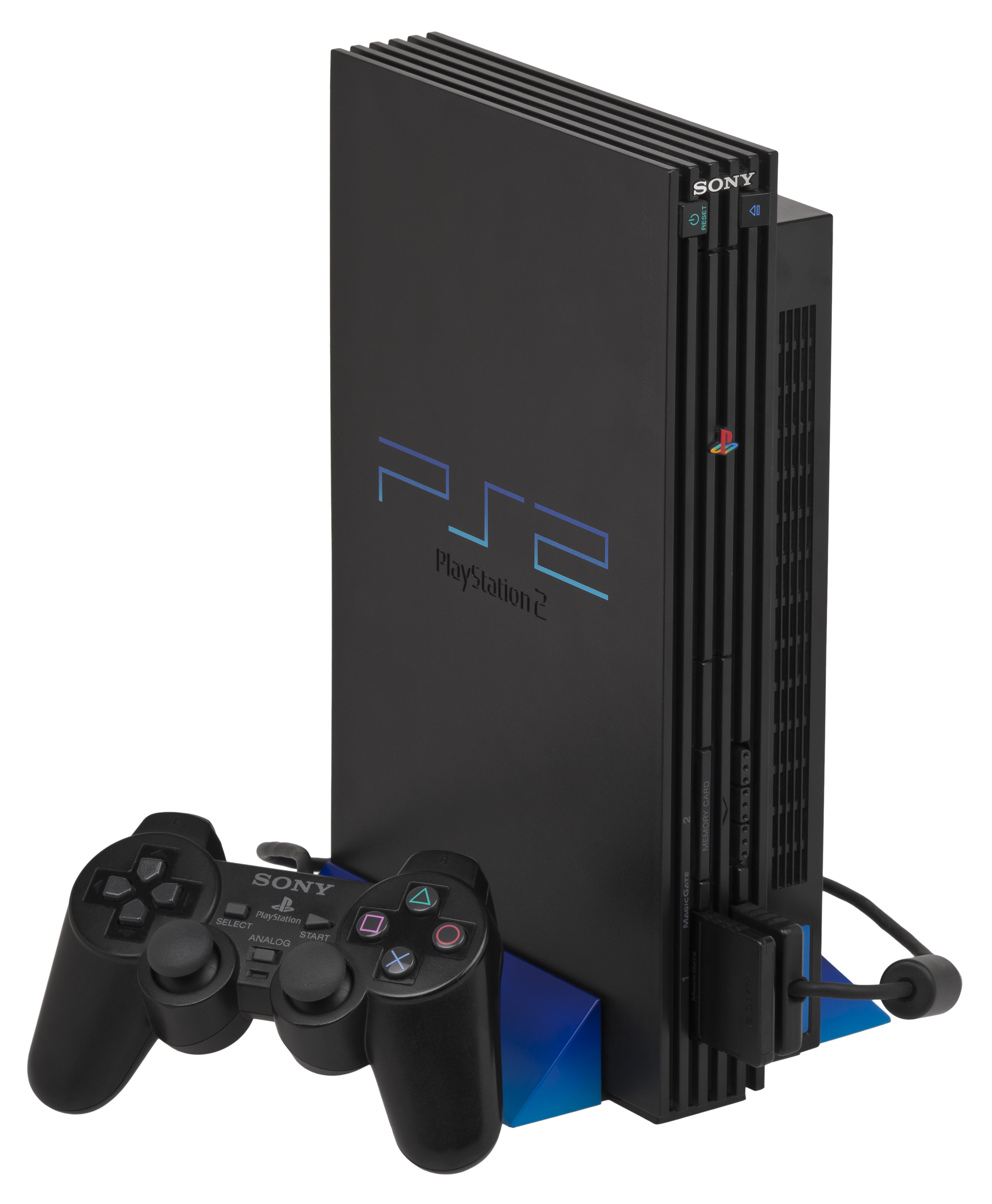 A Sony PlayStation 2, model SCPH-30001. Shown with 8MB memory card and DualShock 2 controller. This is the PNG version.